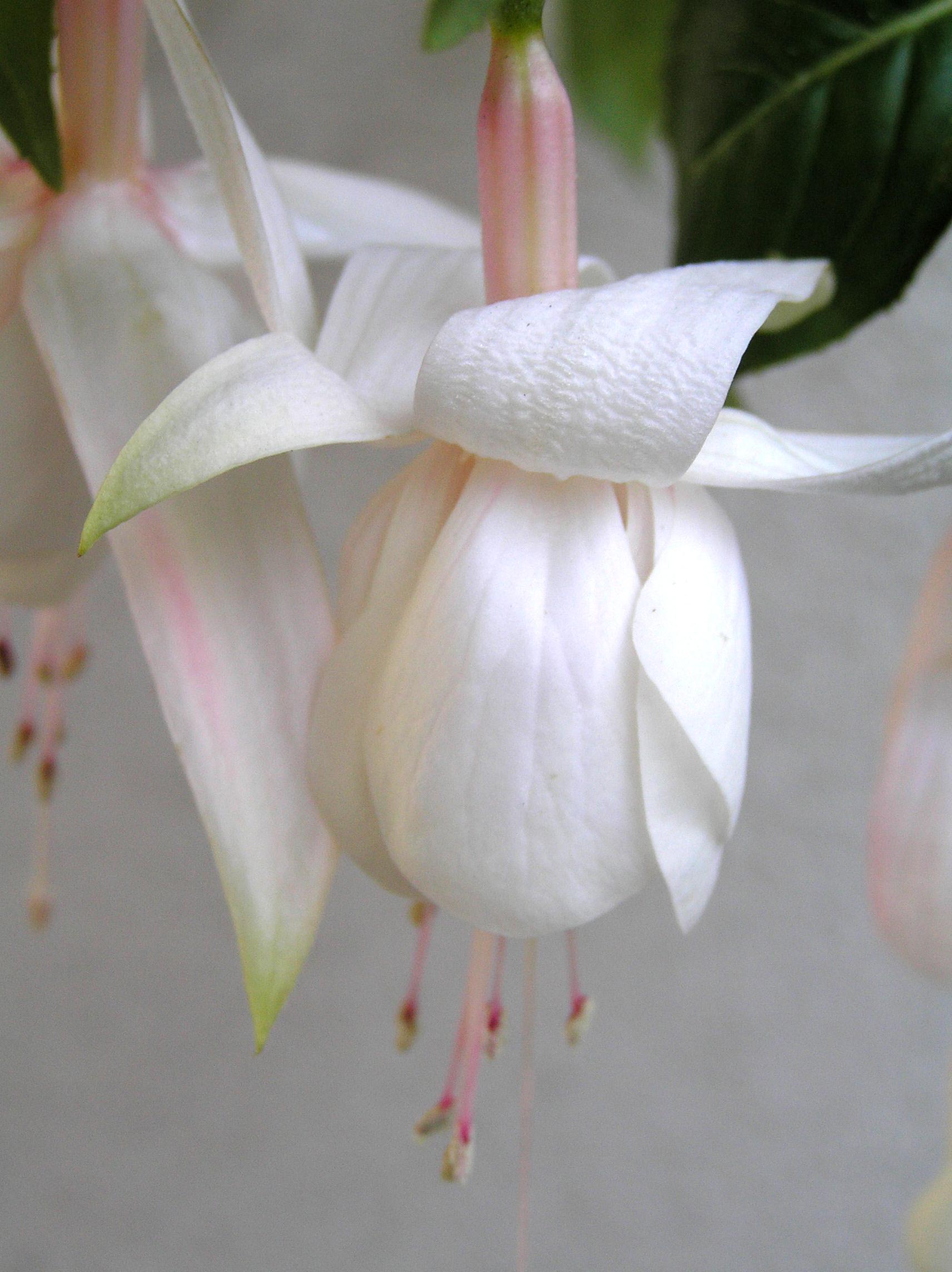 Fuchsia 'Moonglow'